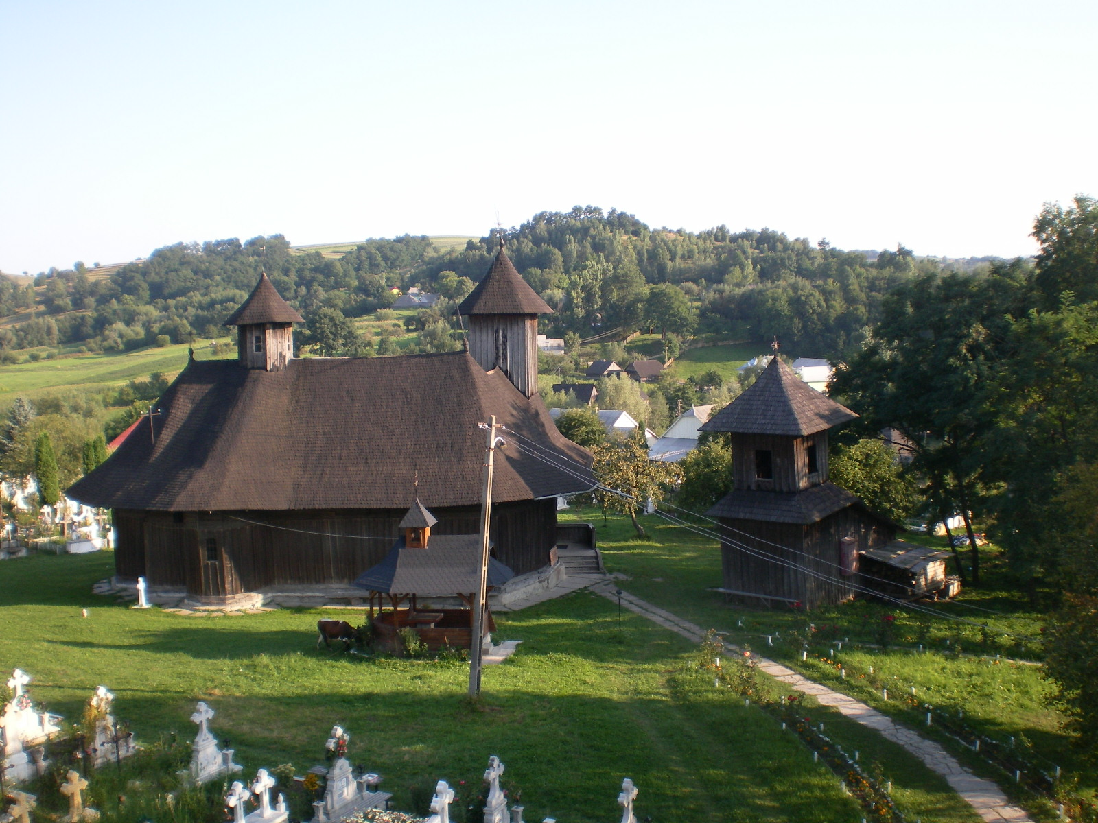 Botosana wooden church, Suceava county, Ro.